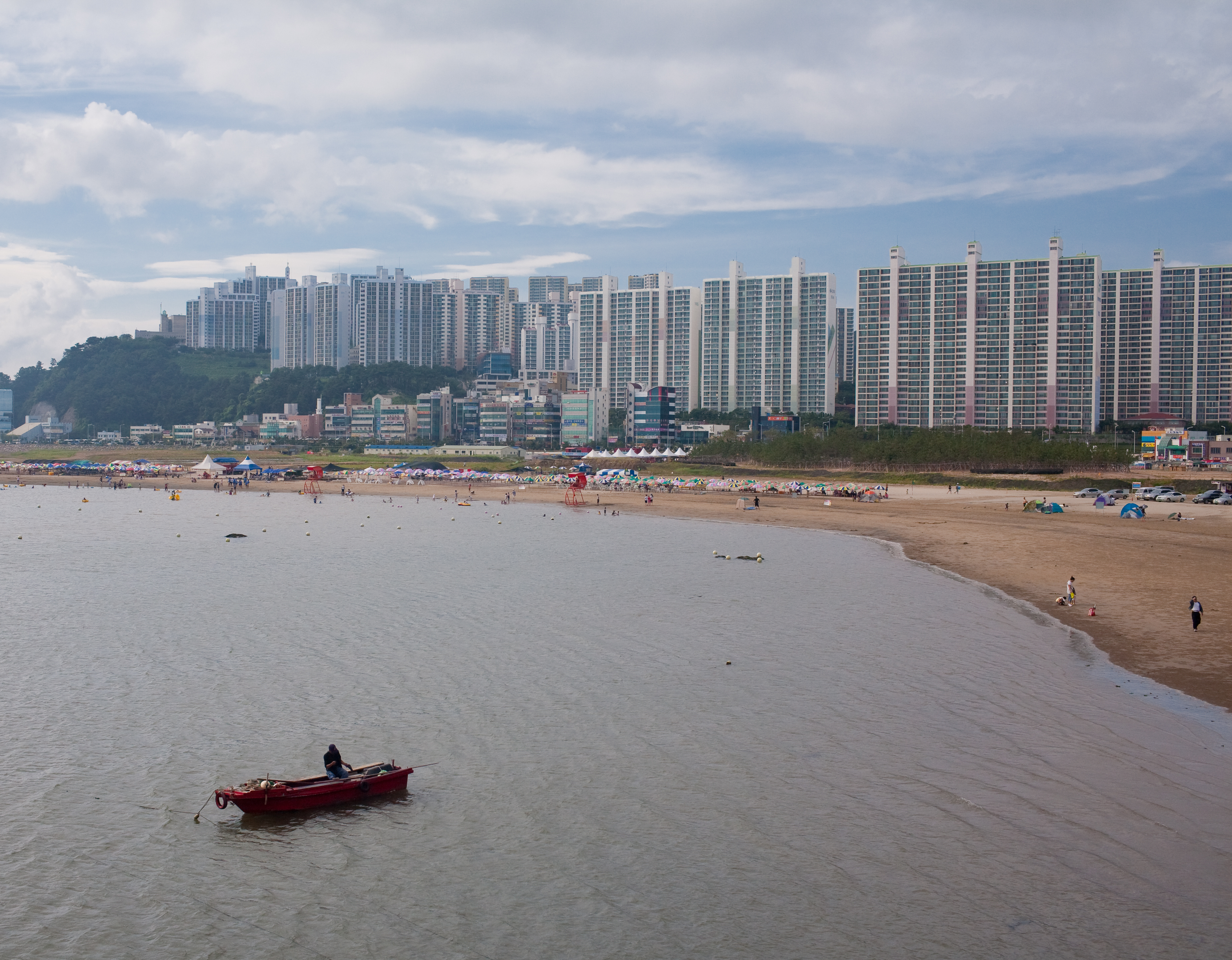 Dadaepo Beach, Busan, South Korea.